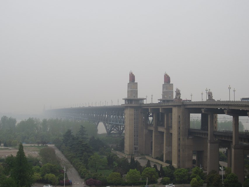 Nanjing Yangtze River Bridge